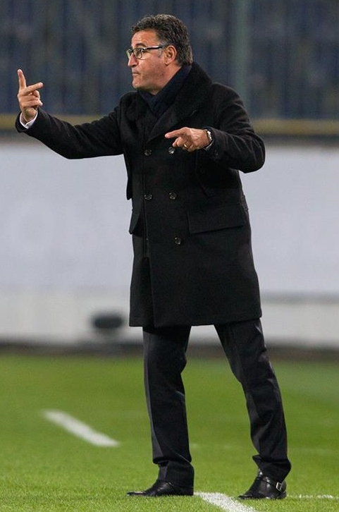 Christophe Galtier